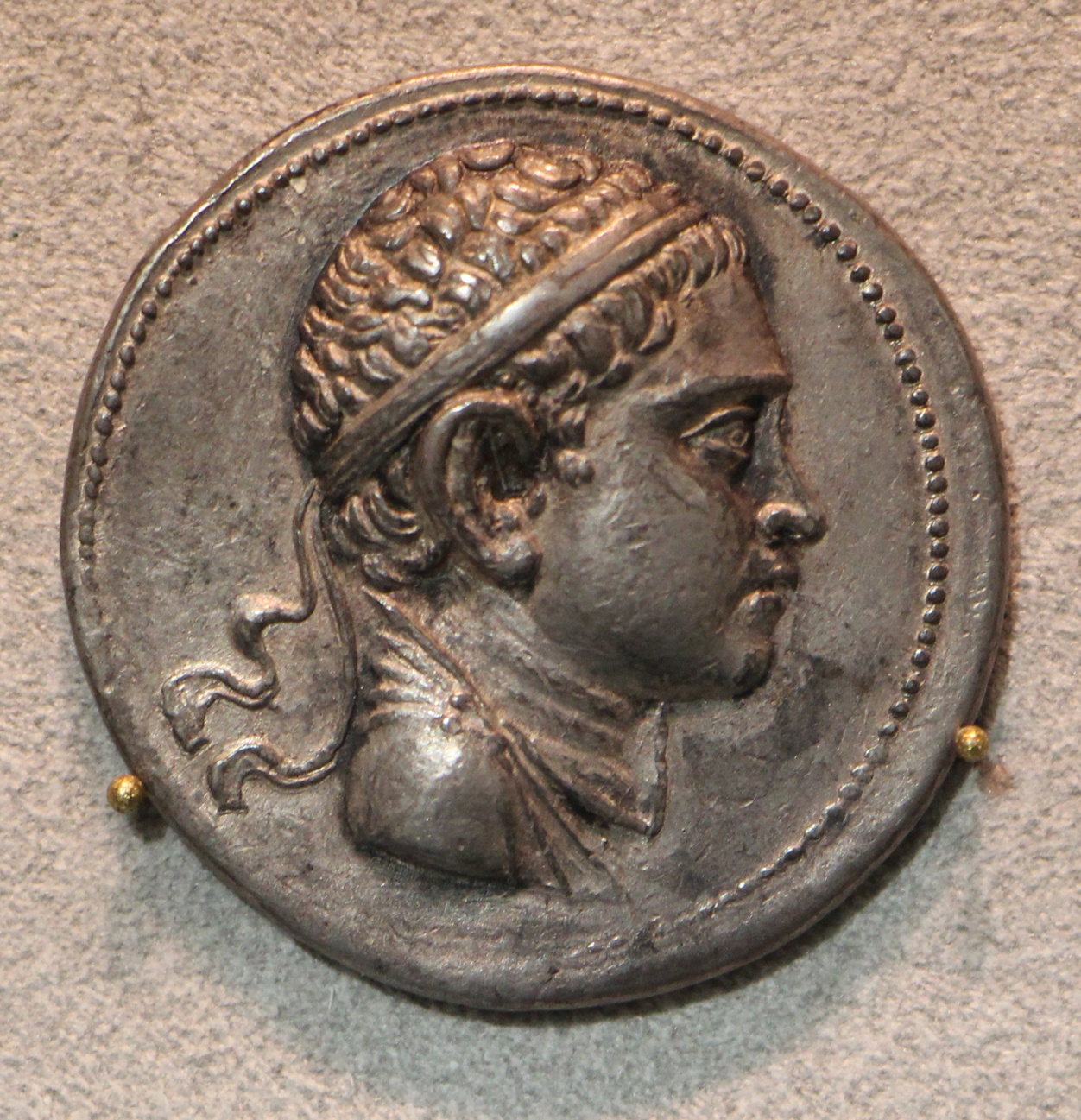 Ancient Greek coins in the Altes Museum Berlin